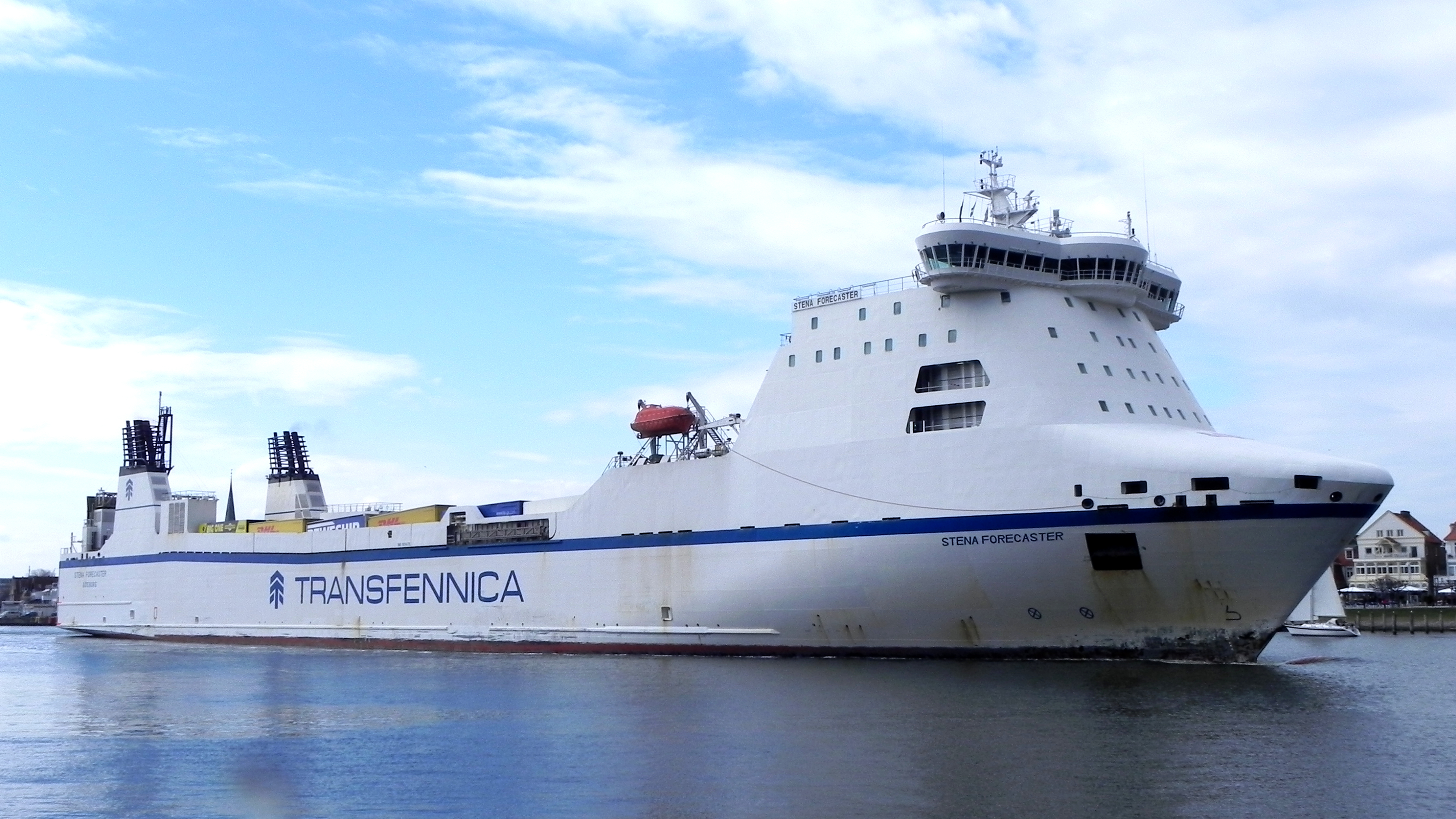 Stena Forecaster in Travemünde